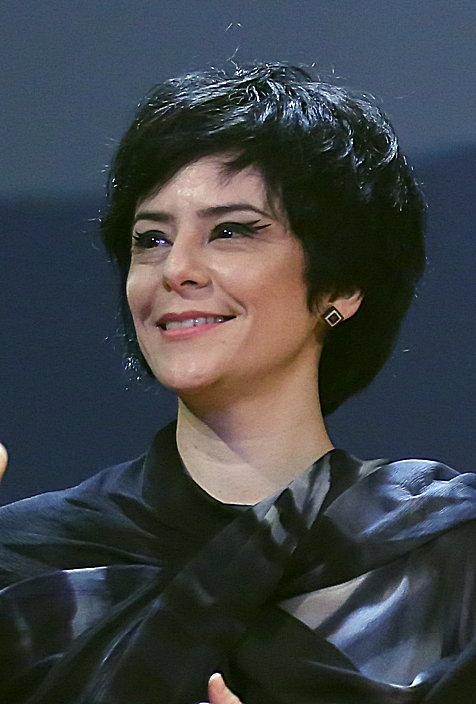 Brazilian vocalist Fernanda Takai at 26th Brazilian Music Prize, Rio de Janeiro.